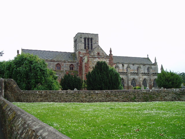 St Mary's Church, Haddington. This is Scotland's largest Parish Church and is called the Lamp of Lothian, for many years it was a partial ruin until restored between 1971 and 1973. It is very well worth visiting if you are ever in Haddington where the full story of this magnificent building is told.